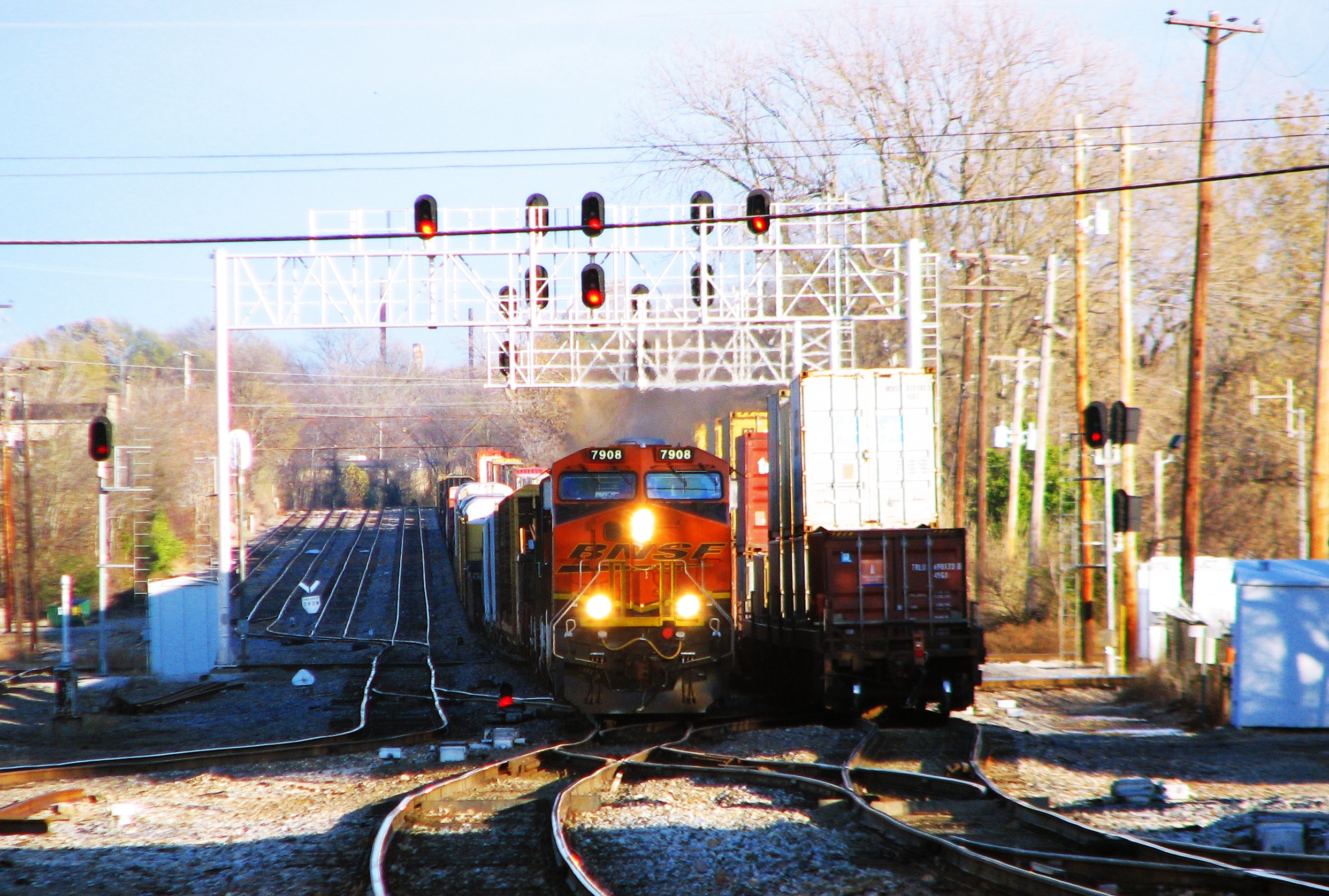 After waiting on company traffic to pass, a BNSF mixed goods train starts chugging up the hill to cross the Mississippi River.